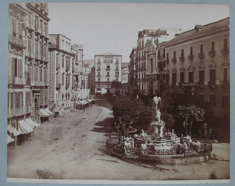 Sommer (1834-1914) - "Naples - Medina fountain". Catalogue # 6161.